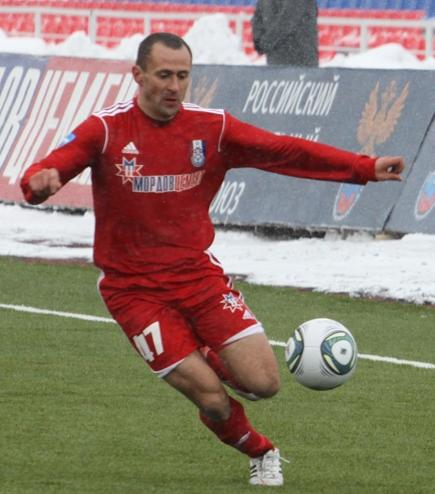 Taras Lazarovych playing for FC Mordovia Saransk.